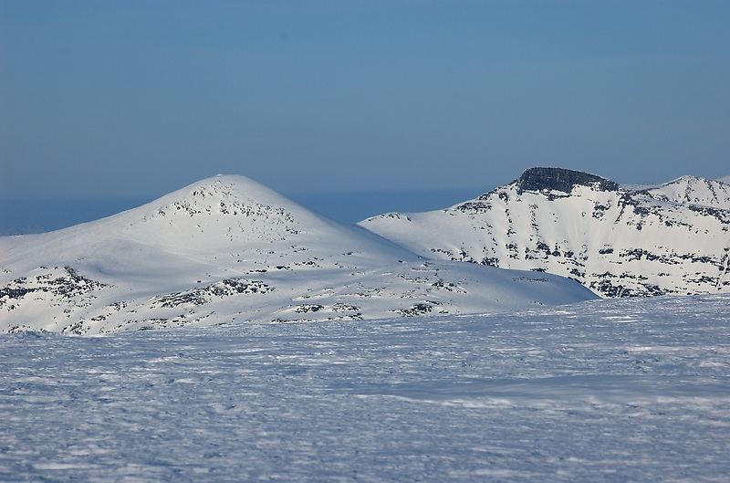 Ytre Sula (1,318 m) and Indre Sula (1,325 m) seen from Vassnebba/Grånebba (in the south)